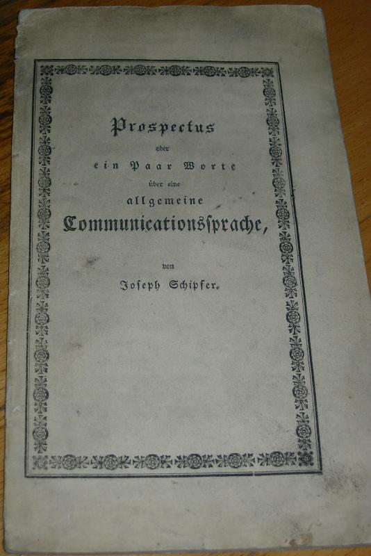 A cover of the book on Communicationssprache by Joseph Schipfer